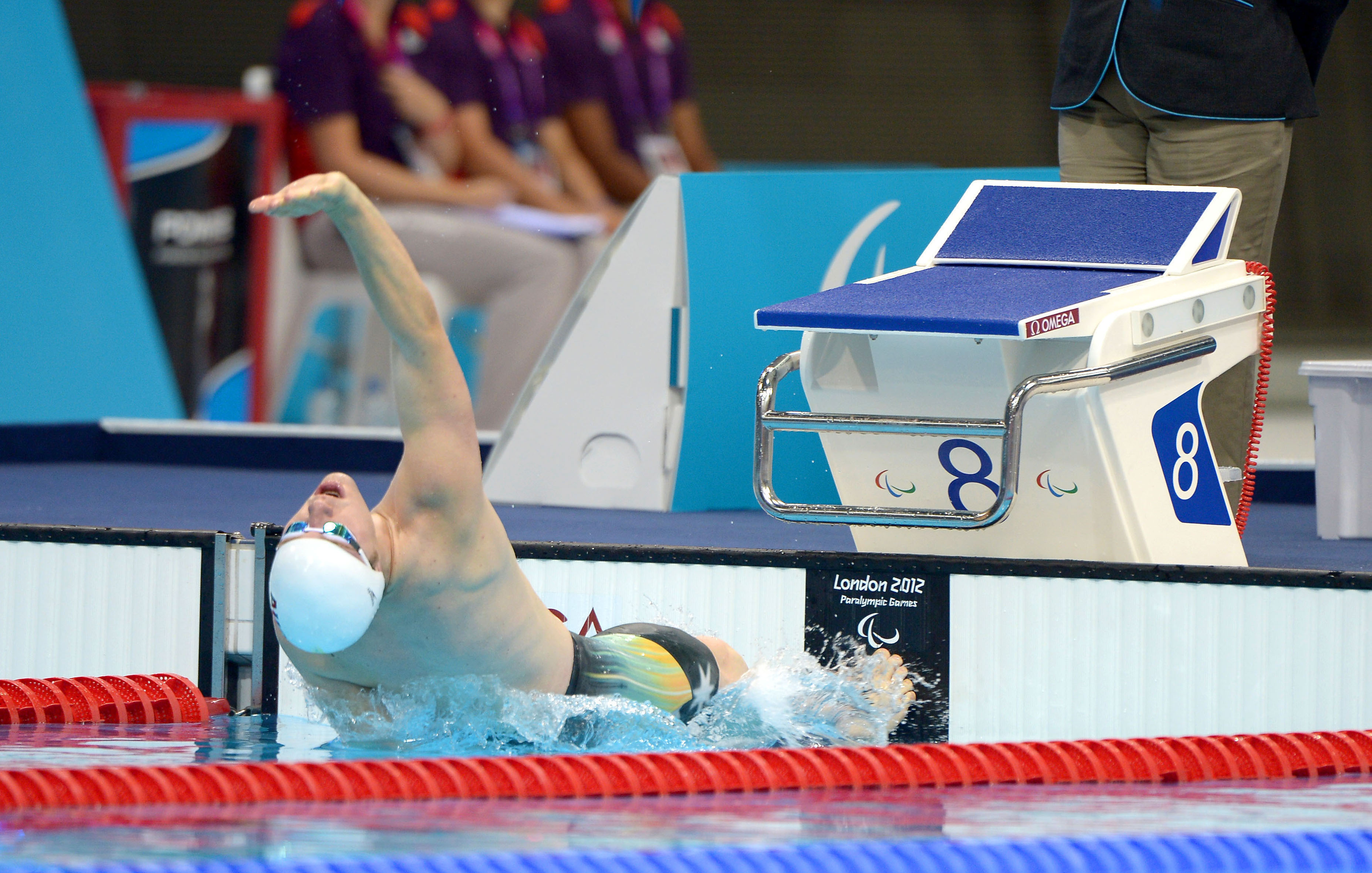 Photograph of Australian Paralympic team member Aaron Rhind at the 2012 Summer Paralympic Games in London